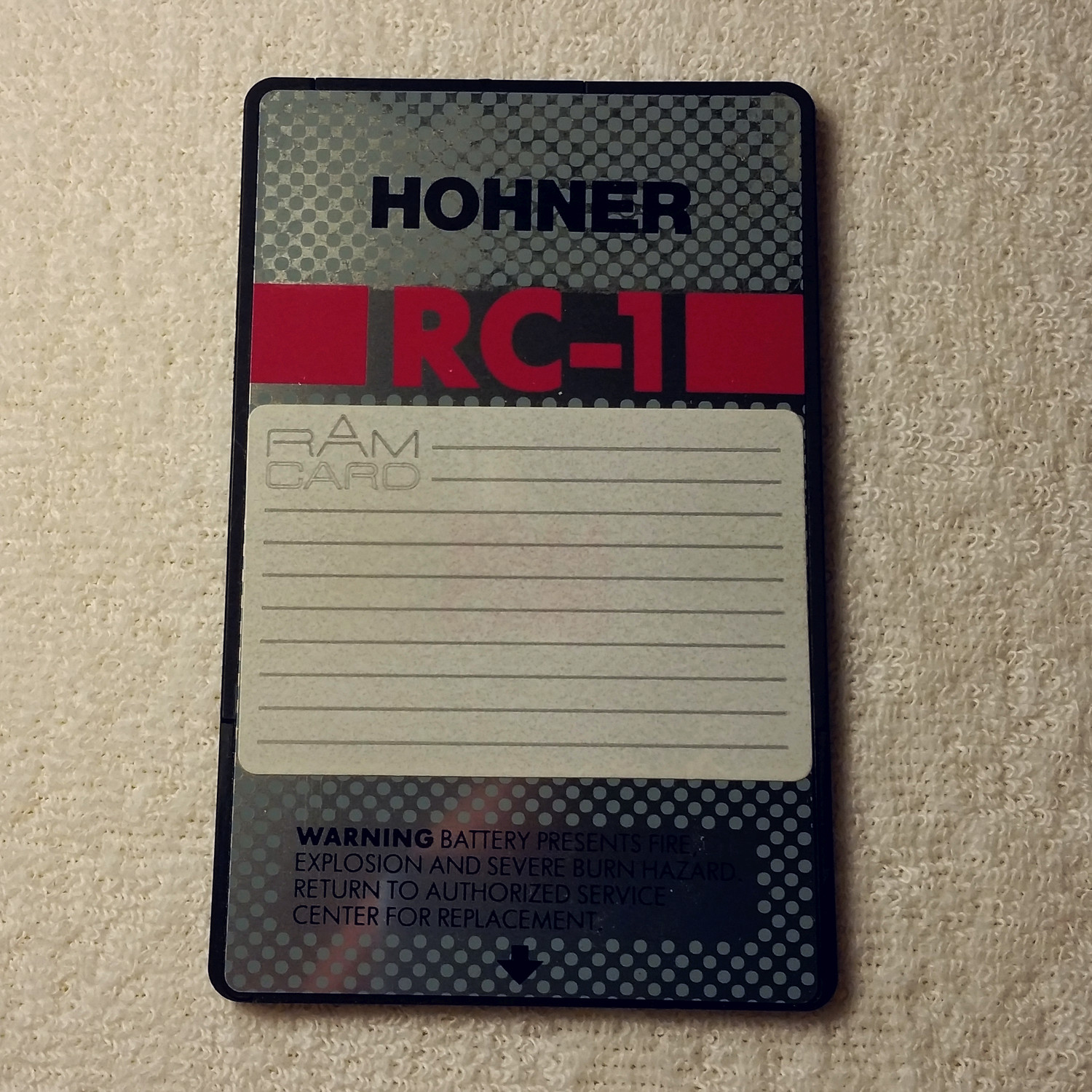 Hohner Media Ram-Card for Casio Synthesizer (~1990)